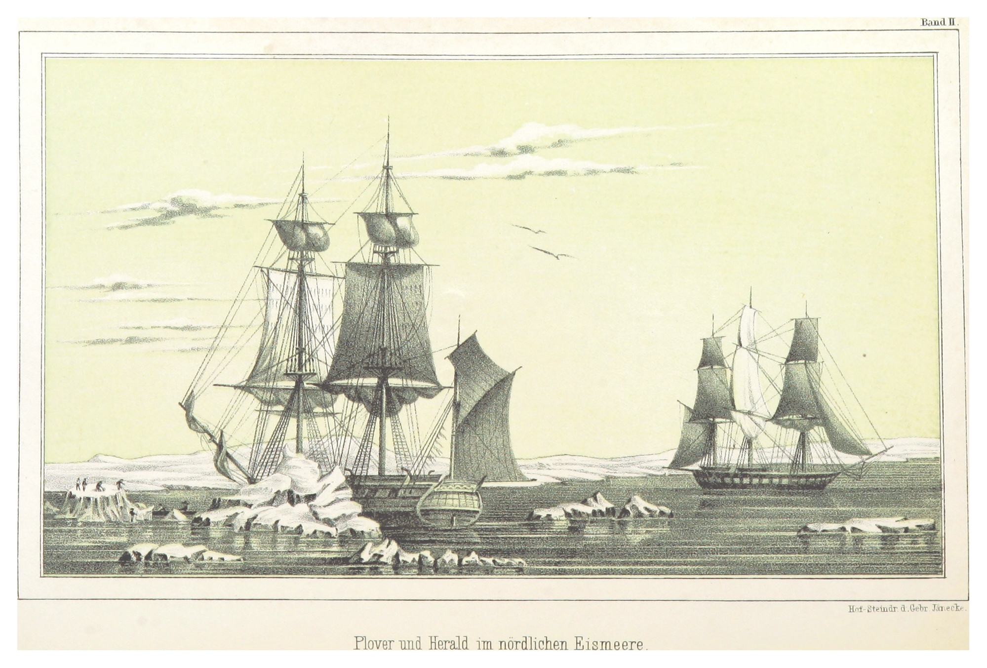 The voyaged in HMS Plover and HMS Herald , wintering in Alaska carrying supplies for the expected arrival of the Franklin Expedition. While waiting they sent out small boat parties to search the northern Alaska coast.